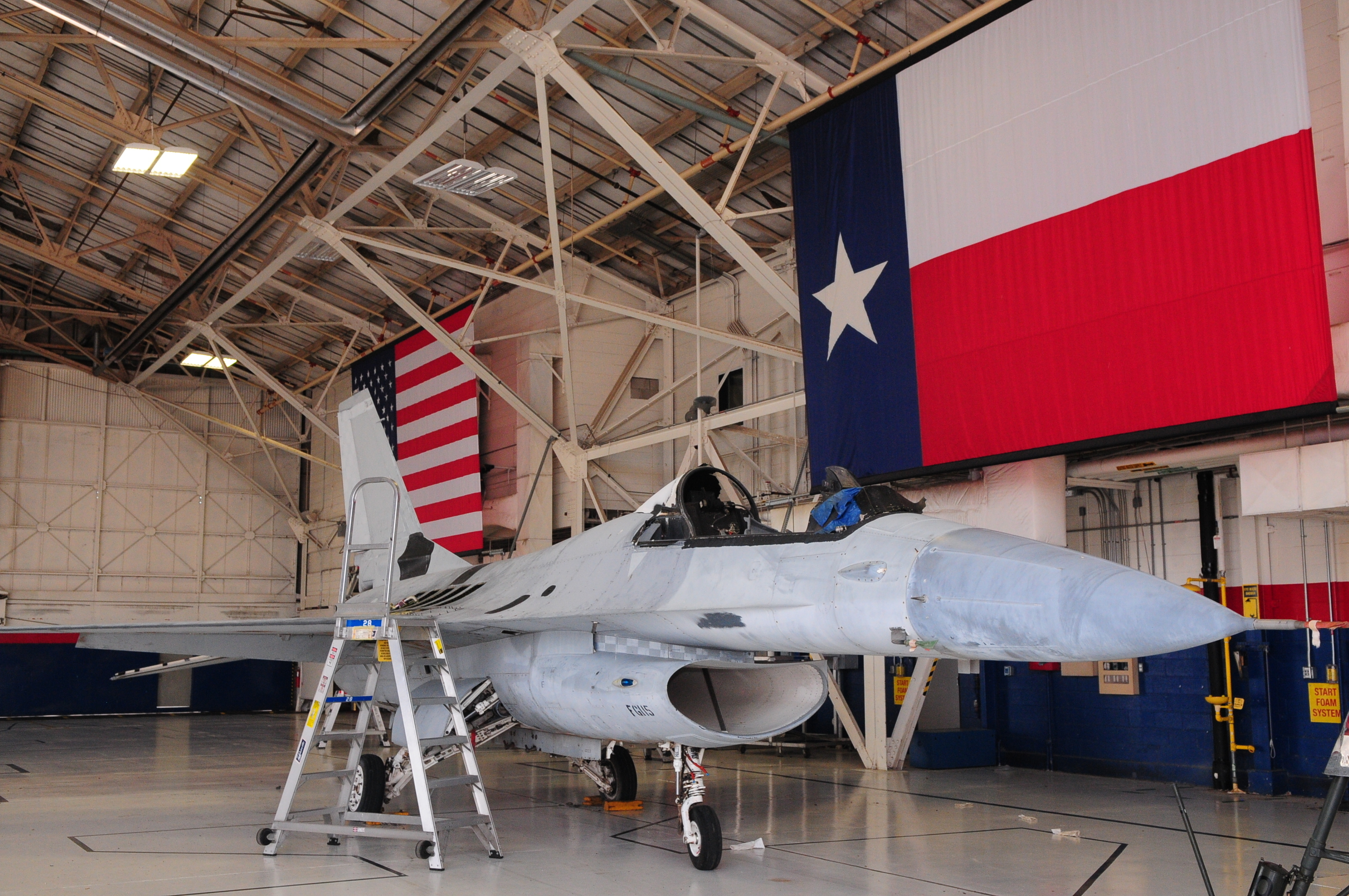 A retired U.S. Air Force F-16 Fighting Falcon aircraft was transported to the 149th Fighter Wing, Texas Air National Guard, Joint Base San Antonio-Lackland, from the 309th Aerospace Maintenance and Regeneration Center, also known as the Boneyard, Davis-Monthan Air Force Base, May 2, 2014. Since the arrival of the aircraft, progression of the restoration can be seen as the aircraft sits in a 149th maintenance hangar, May 30, 2014. When finished, the F-16 will be used as a static display at the 149th Fighter Wing. (U.S. Air National Guard photo by Staff Sgt. Rebekkah Jandron/Released)